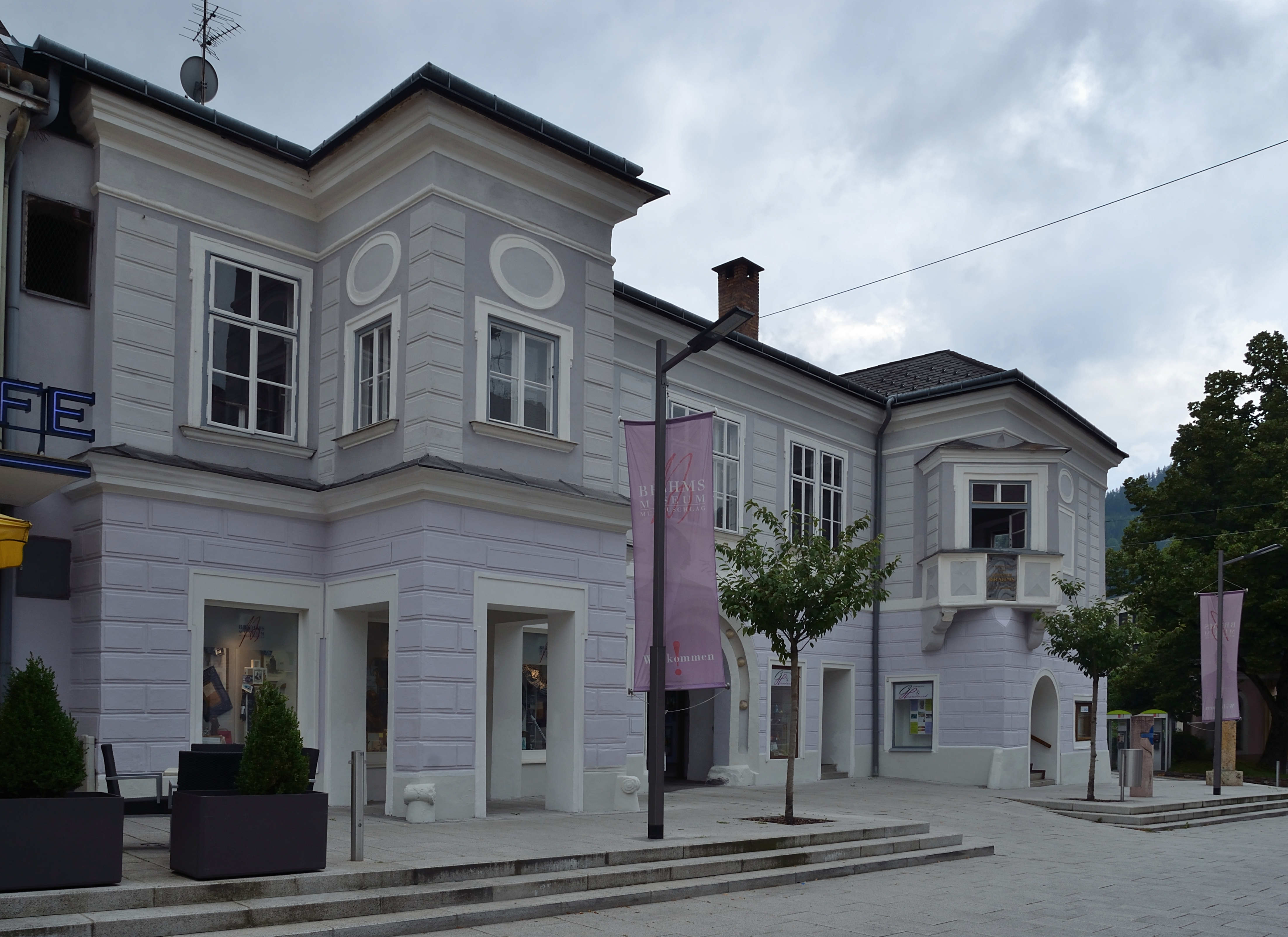 Brahms-Haus, Mürzzuschlag, Styria